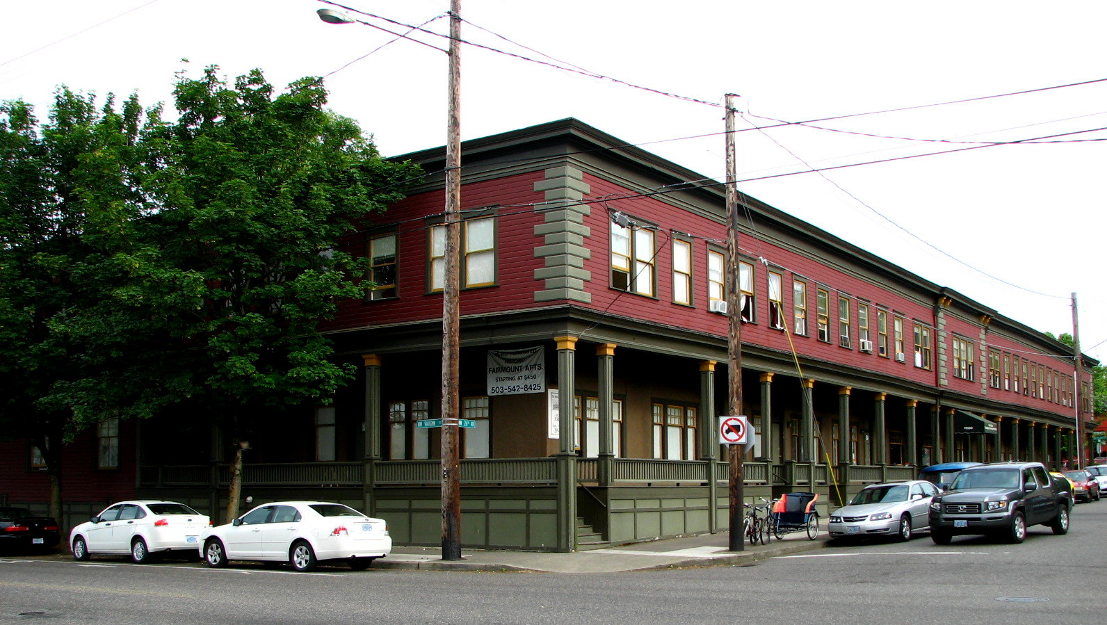 The historic Fairmount Hotel (built 1905), located at 1908-1932 Northwest 26th Avenue in Portland, Oregon, United States, is listed on the US National Register of Historic Places. It is currently in use as an apartment building.